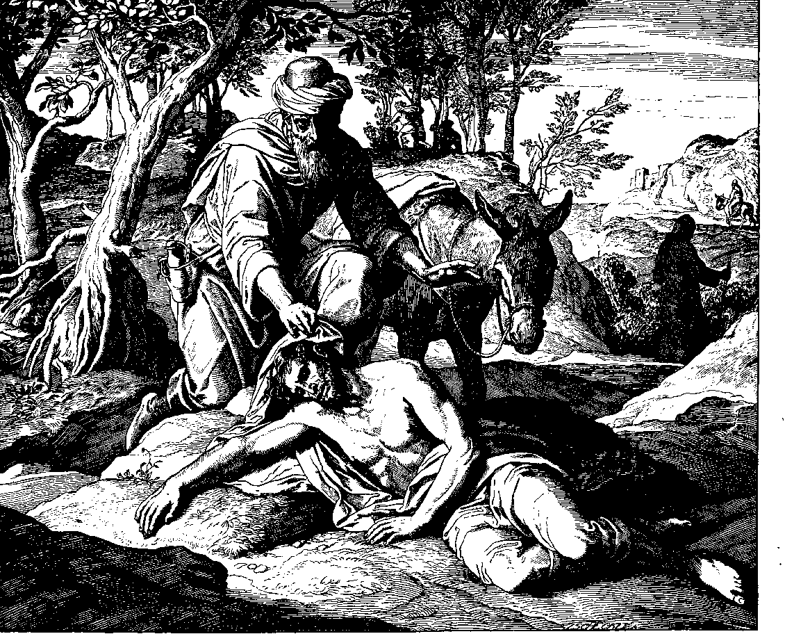 Woodcut for "Die Bibel in Bildern", 1860.